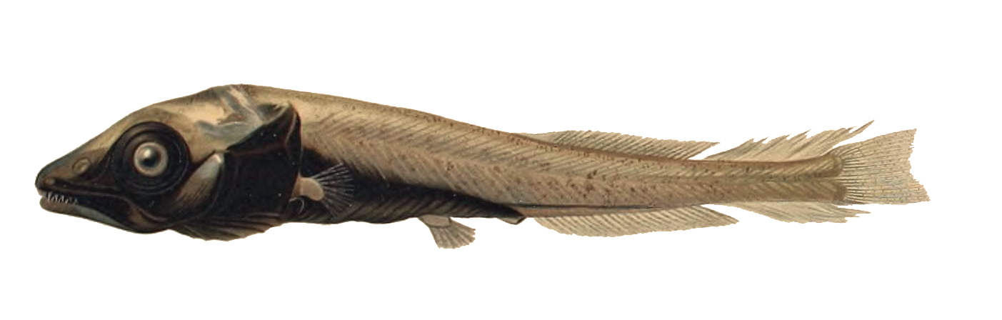 Bathytroctes